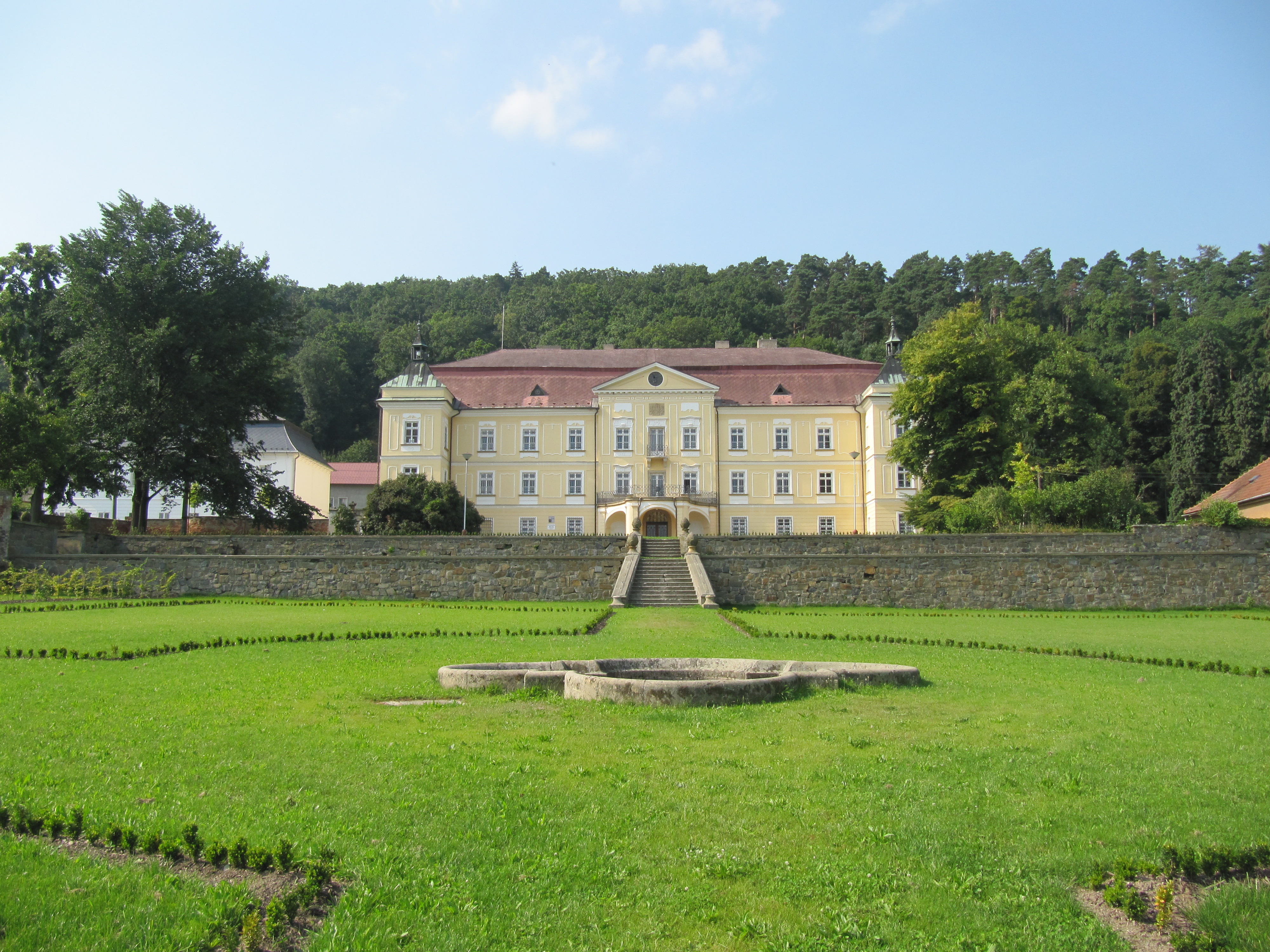 Veselíčko, Czech Republic, Přerov District. Castle from 1768, view from park. This photograph was taken within the scope of the third year of the 'Czech Municipalities Photographs' grant.